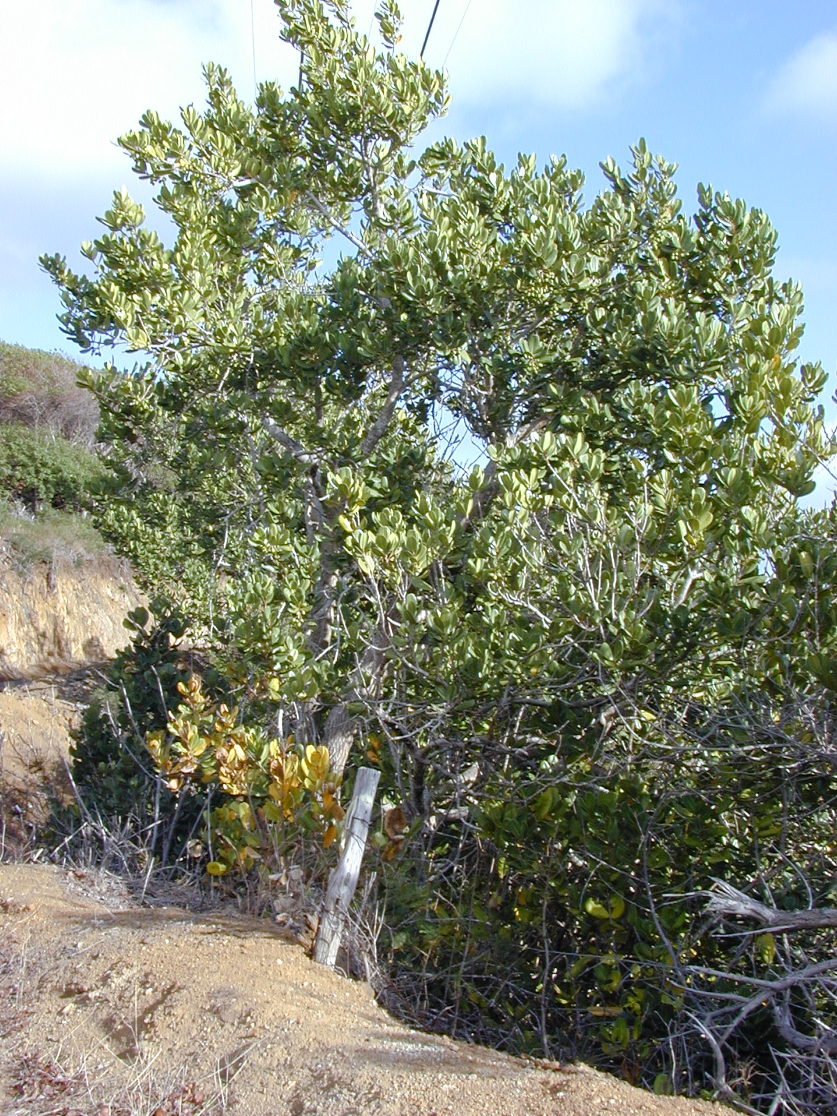 Noronhia emarginata (habit). Location: Maui, West Maui